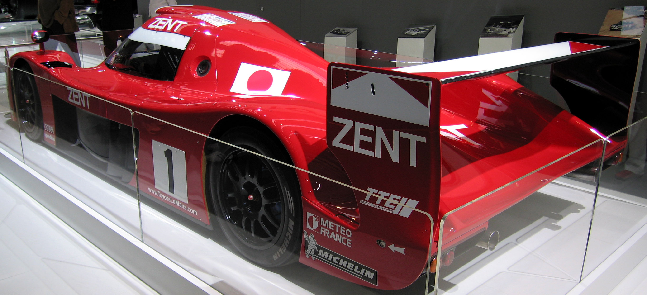 Toyota TS020 GT One at the IAA 2007